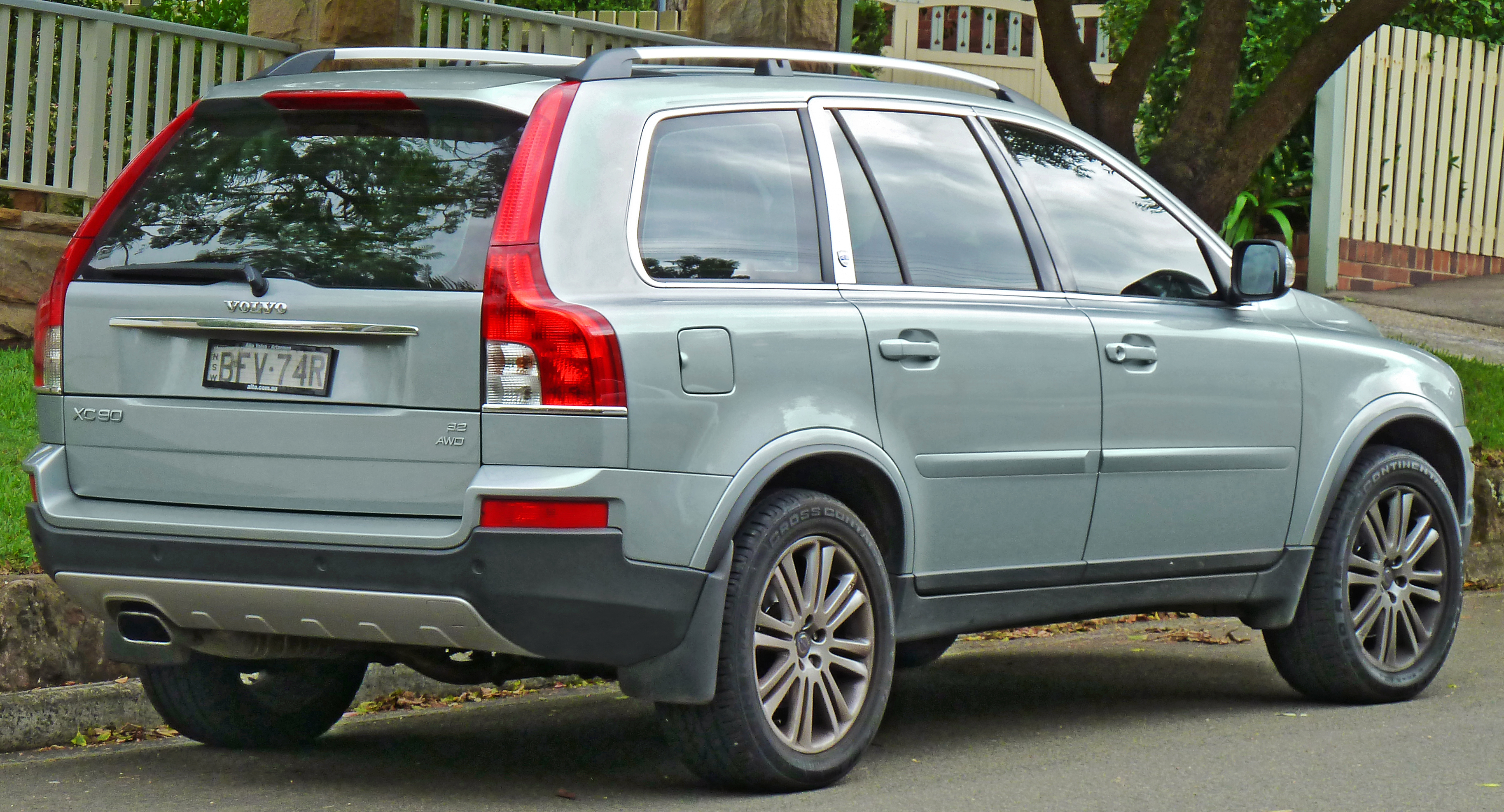 2008 Volvo XC90 (P28 MY08) LE 3.2 wagon. Photographed in Lindfield, New South Wales, Australia.